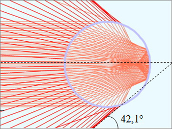 Plot of rays in a primary rainbow